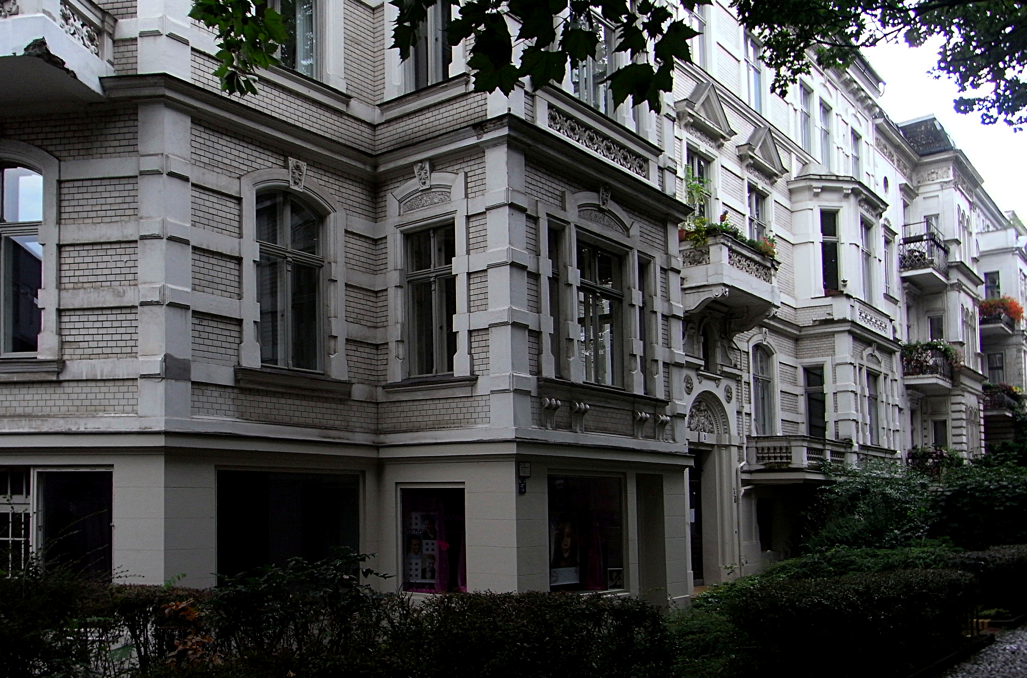 Buildings in Berlin-Hansaviertel in the style of historicism, built from 1883 to 1893, neoclassicist style. Listed buildings. D-10557 Berlin, Flensburger Straße 5-13